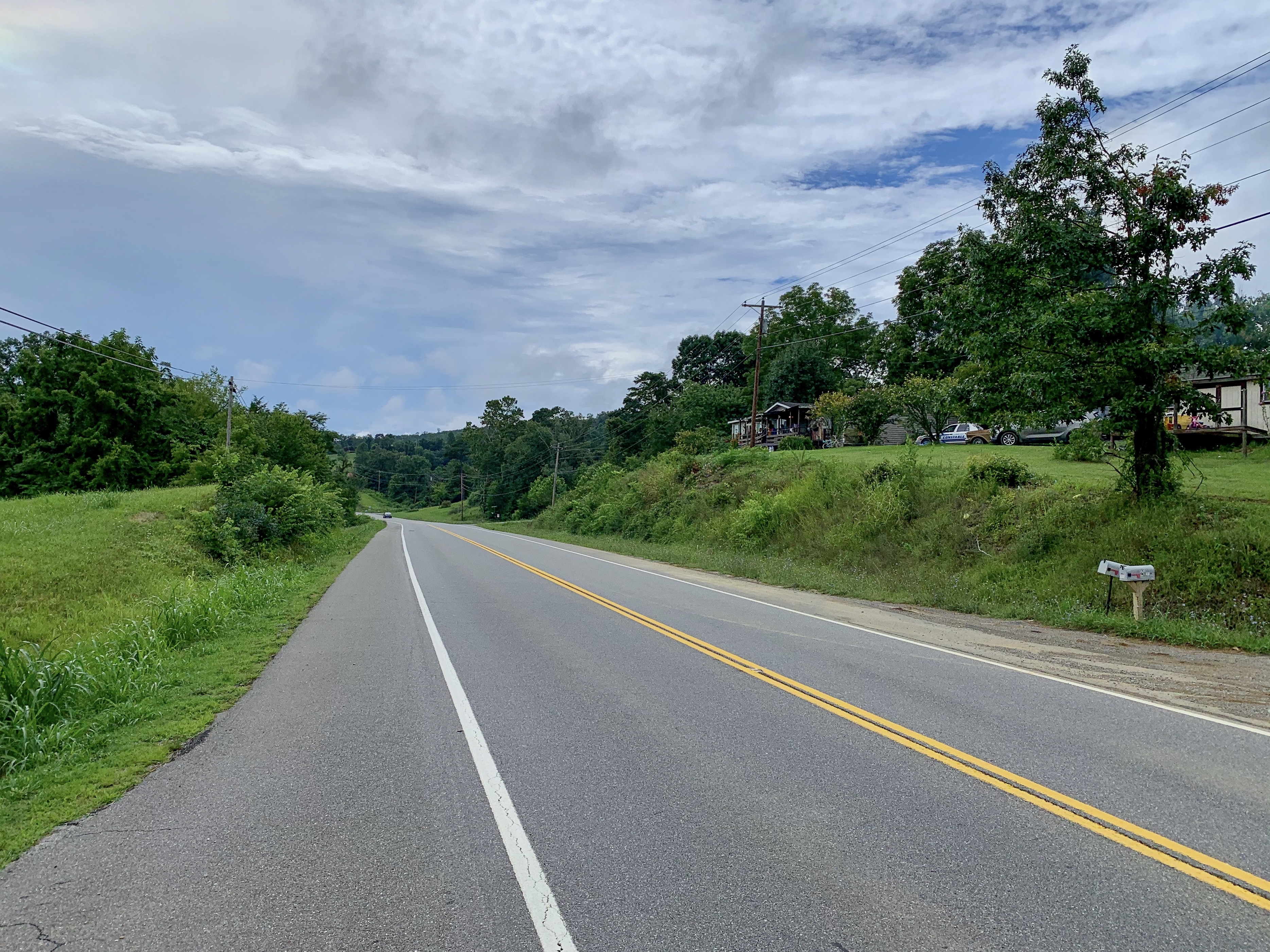 The accident site of a bus-semi truck collision in 1972 in Bean Station, as of 2020